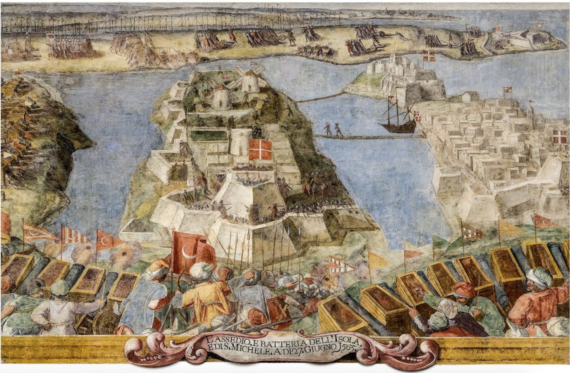 The guns which earlier were aimed at St Elmo were brought into new positions facing Fort St Michael.